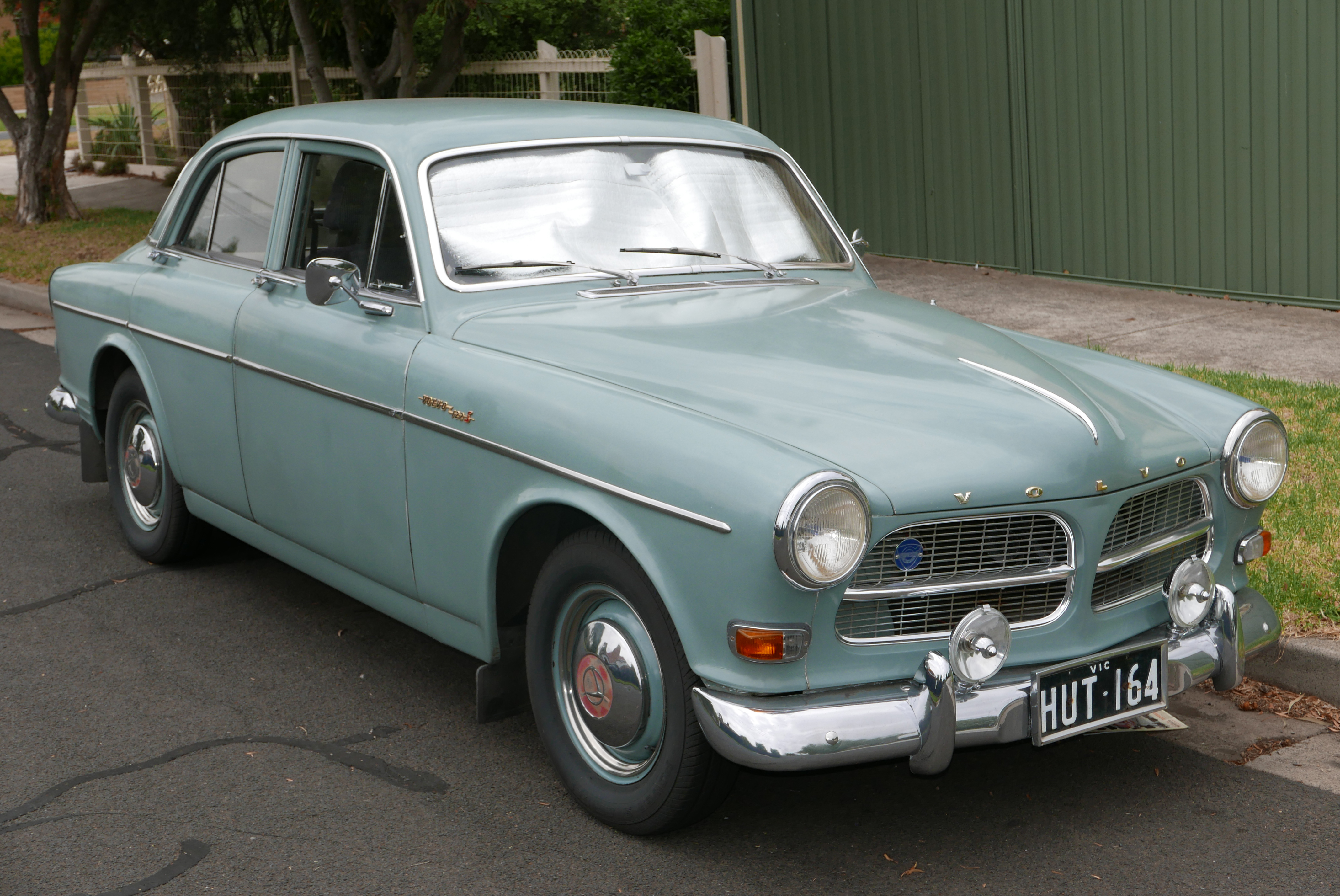 1963 Volvo 122S B18 4-door sedan. Photographed in Pascoe Vale, Victoria, Australia. Vehicle registration enquiry results Jurisdiction Victoria Registration HUT164 Chassis code Not available Engine code 0230117 Compliance date Not available Year of manufacture 1963